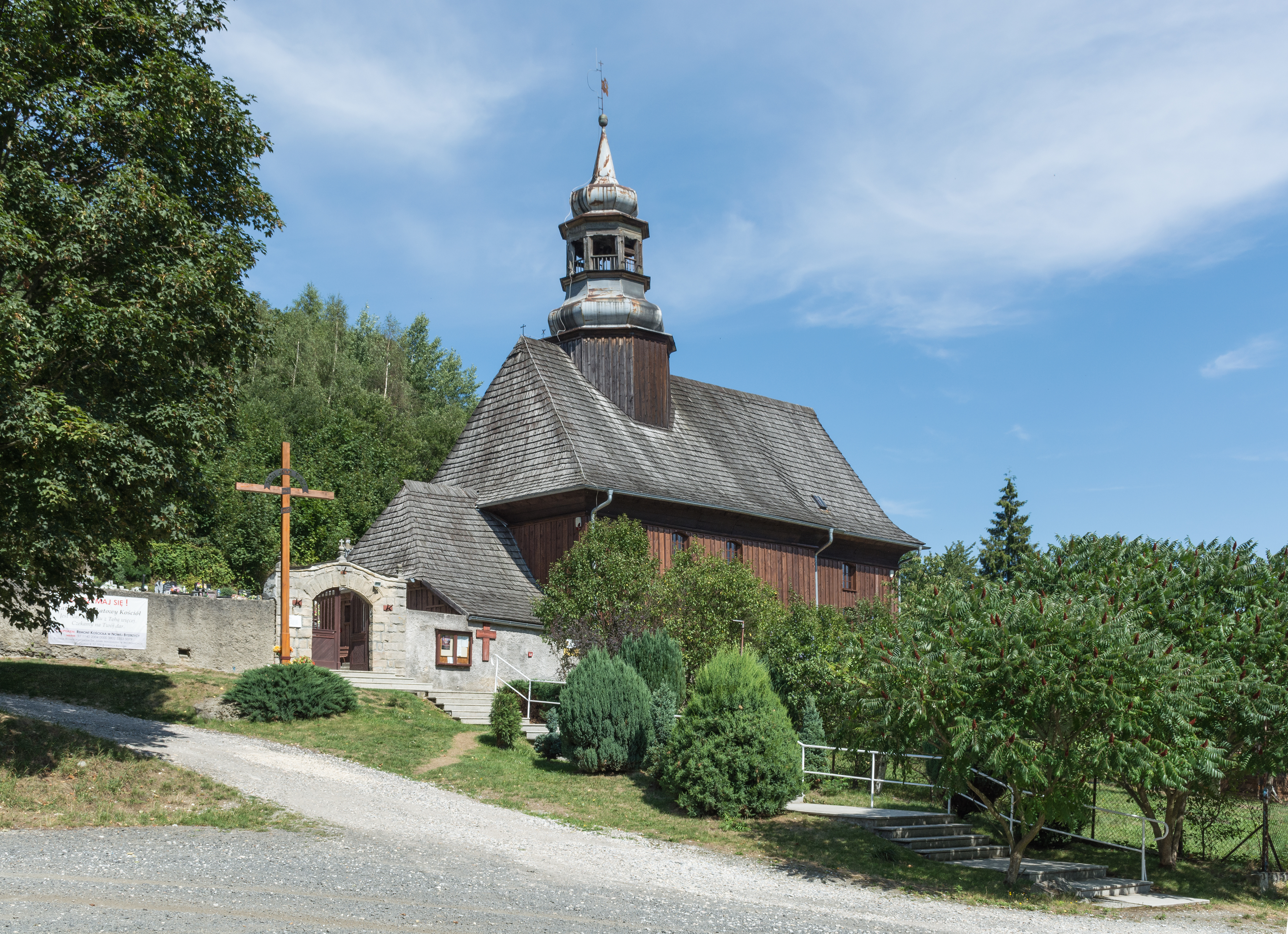 Church of the Assumption in Nowa Bystrzyca